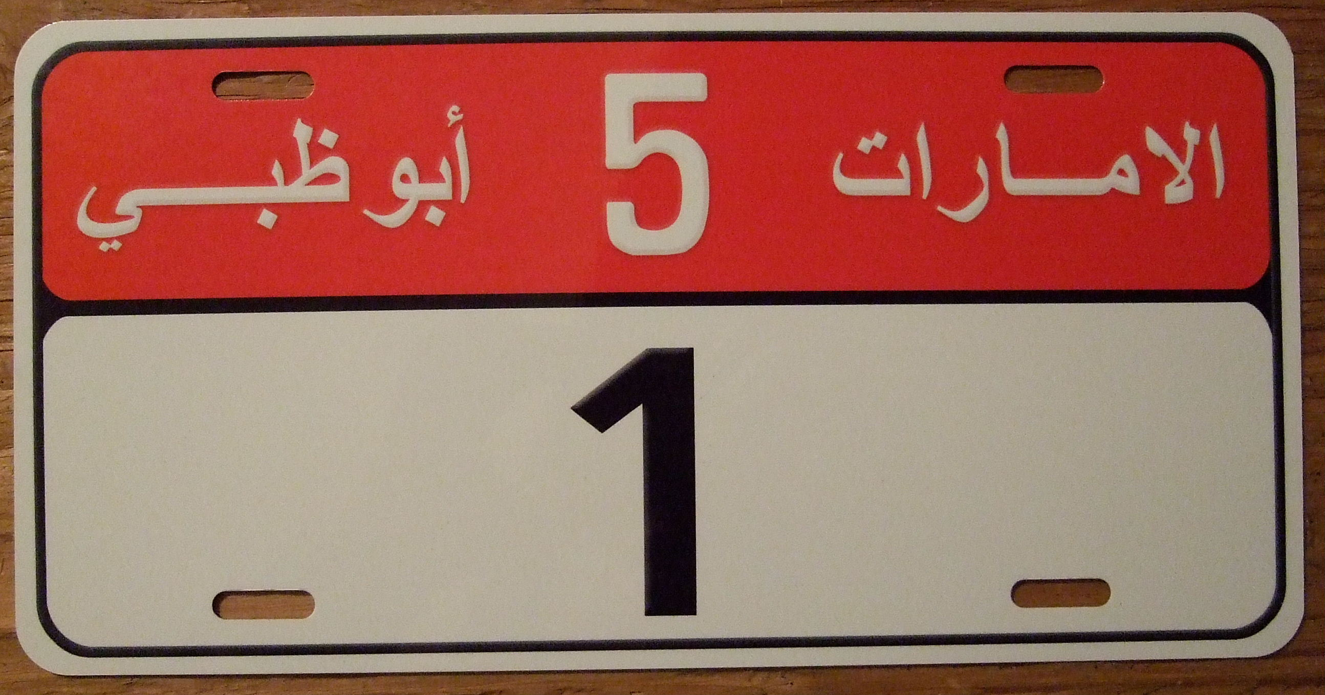 Sent this back home from Dubai.This is a replica of the most expensive license plate in the world. This plate was auctioned in the United Arab Emirates in the city of Abu Dhabi in the Emirate of the same name and the capital of the UAE. This number "1" plate was auctioned for 52,200,000 UAE Dirhams or about 14,000,000 US dollars. This replica is of the rear plate, the front plate being longer with the red portion at the left of the plate with "5" in white in it. The rest of the plate is black on white with the Country name and Emirate name in arabic followed by the single digit 1. On the front plate the "1" has a bottom piece on the number while the rear plate does not. I am not sure the meaning of the number "5" as I believe that is a vehicle class code and not part of the serial number. This plate is in the current Abu Dhabi passenger style which was first issued about 2006.